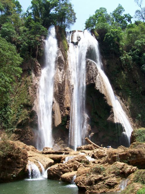 Anisakan Waterfall. 5 km away from Pyin U Lwin.